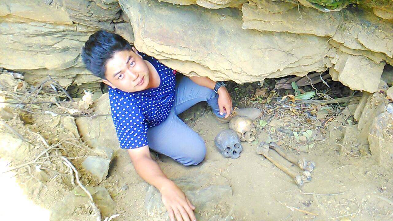 The tomb at Dimpi